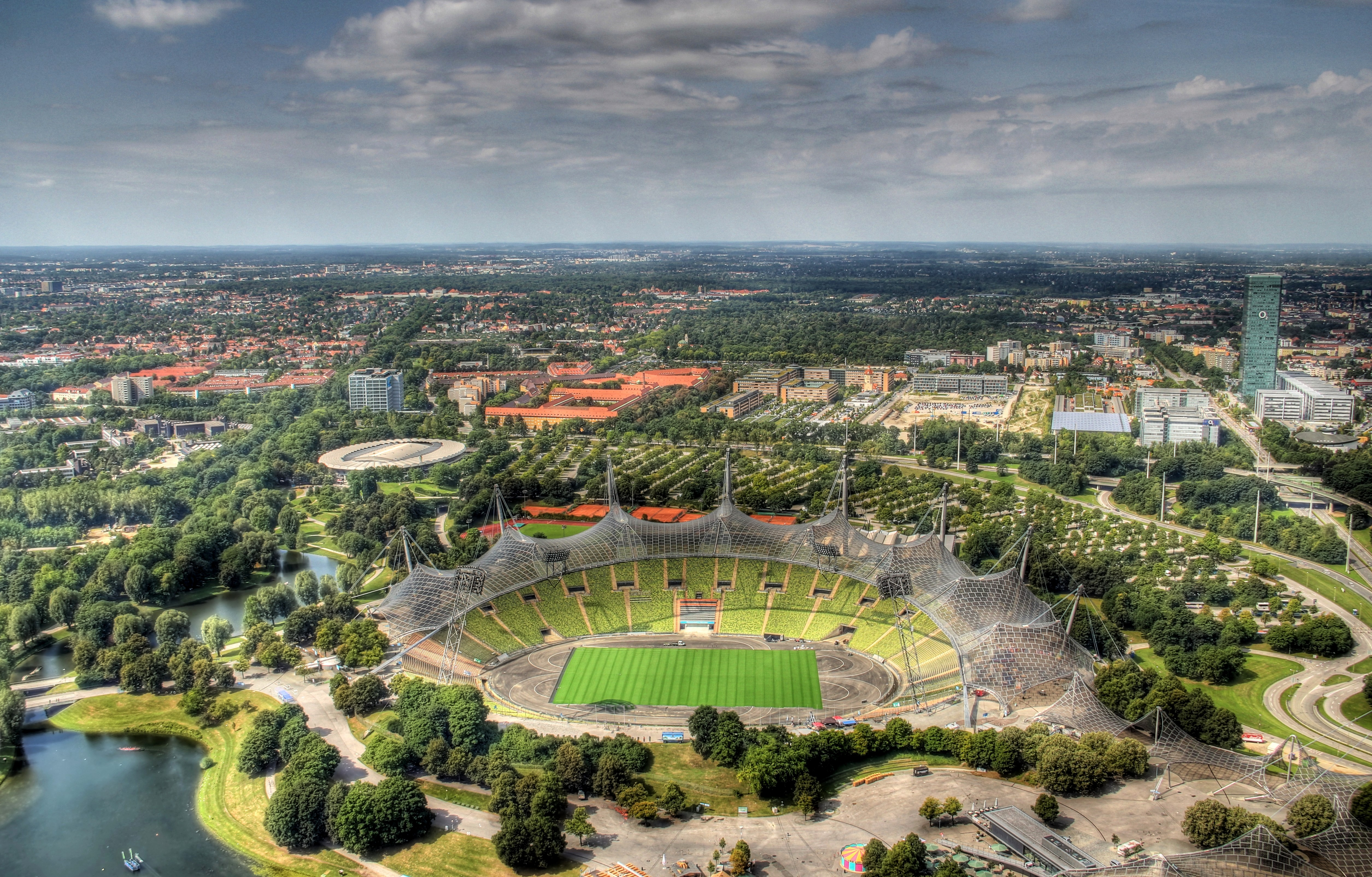 The olympic stadium in munic.This is a photograph of an architectural monument.